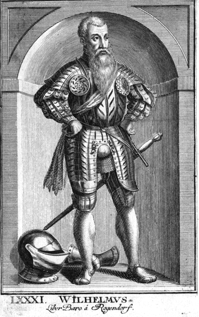 Wilhelm Freiherr von Roggendorf (1481–1541) was an Austrian military commander and Hofmeister.